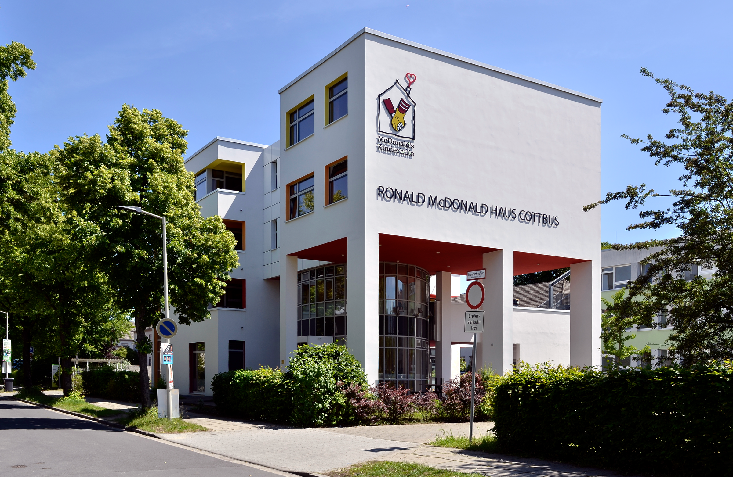 Ronald-McDonald-Haus, Leipziger Straße 38 in Cottbus-Spremberger Vorstadt.